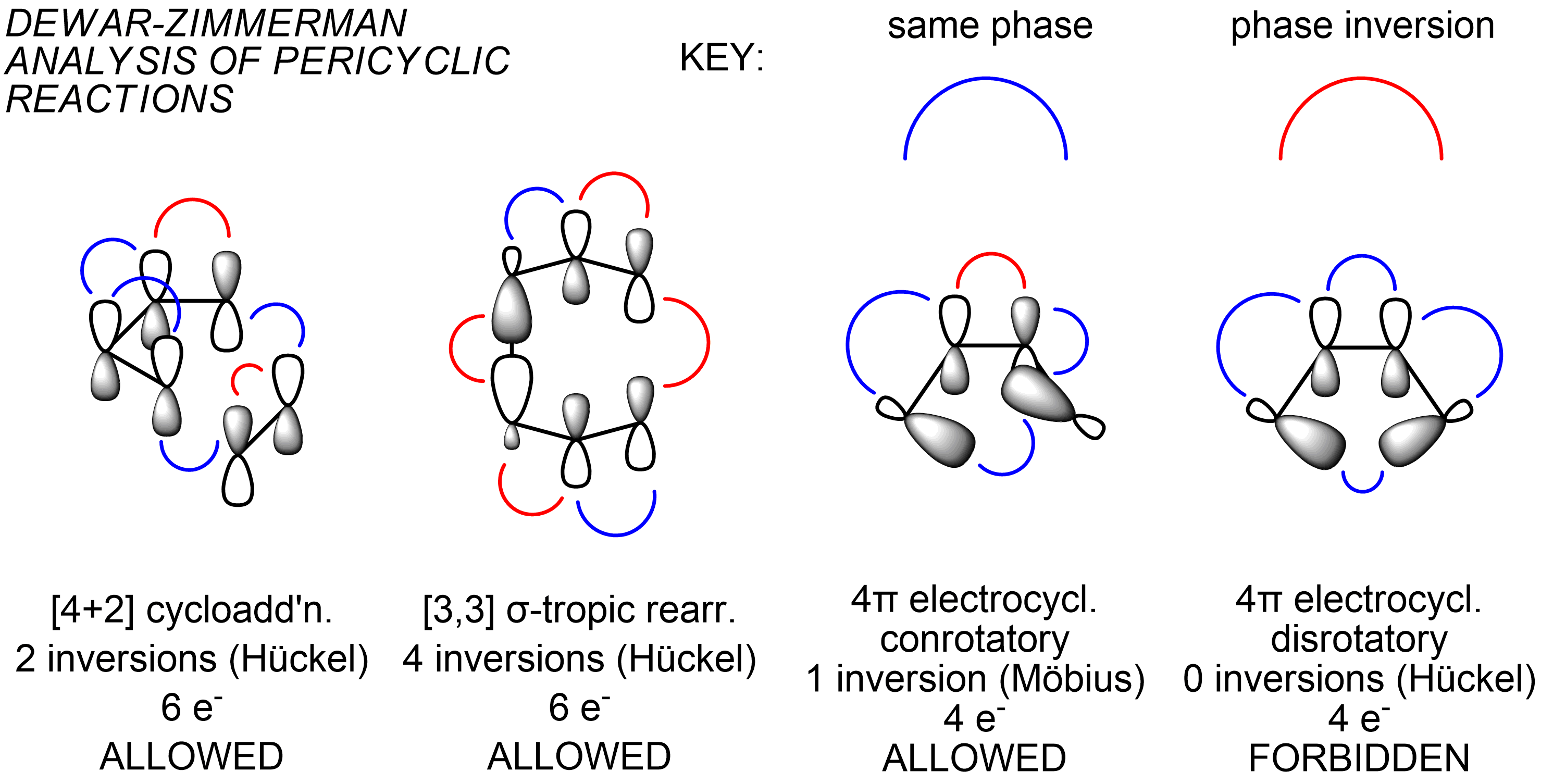 Application of Dewar-Zimmerman analysis